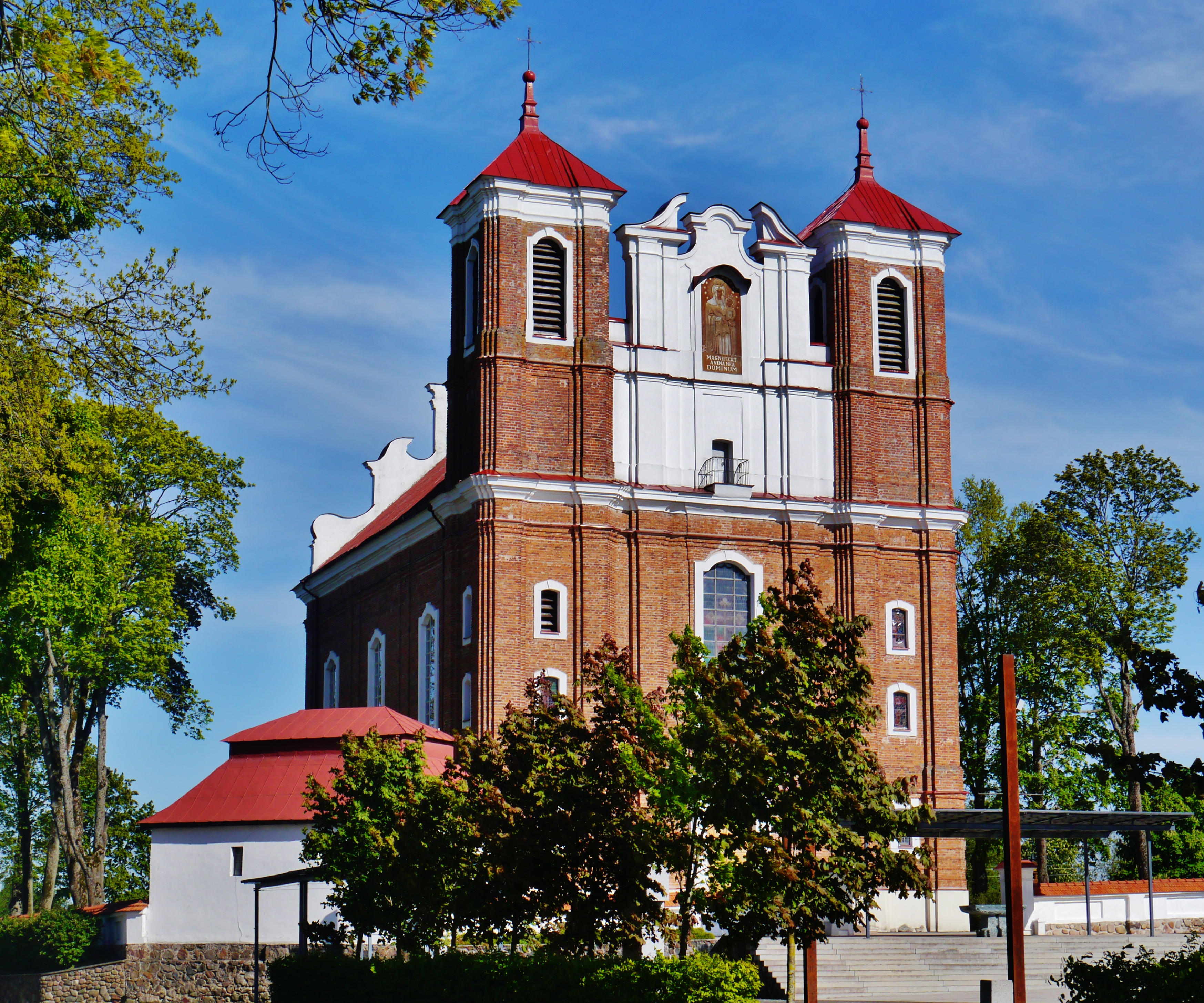 Basilica of Our Lady Nativity, Siluva, Lithuania